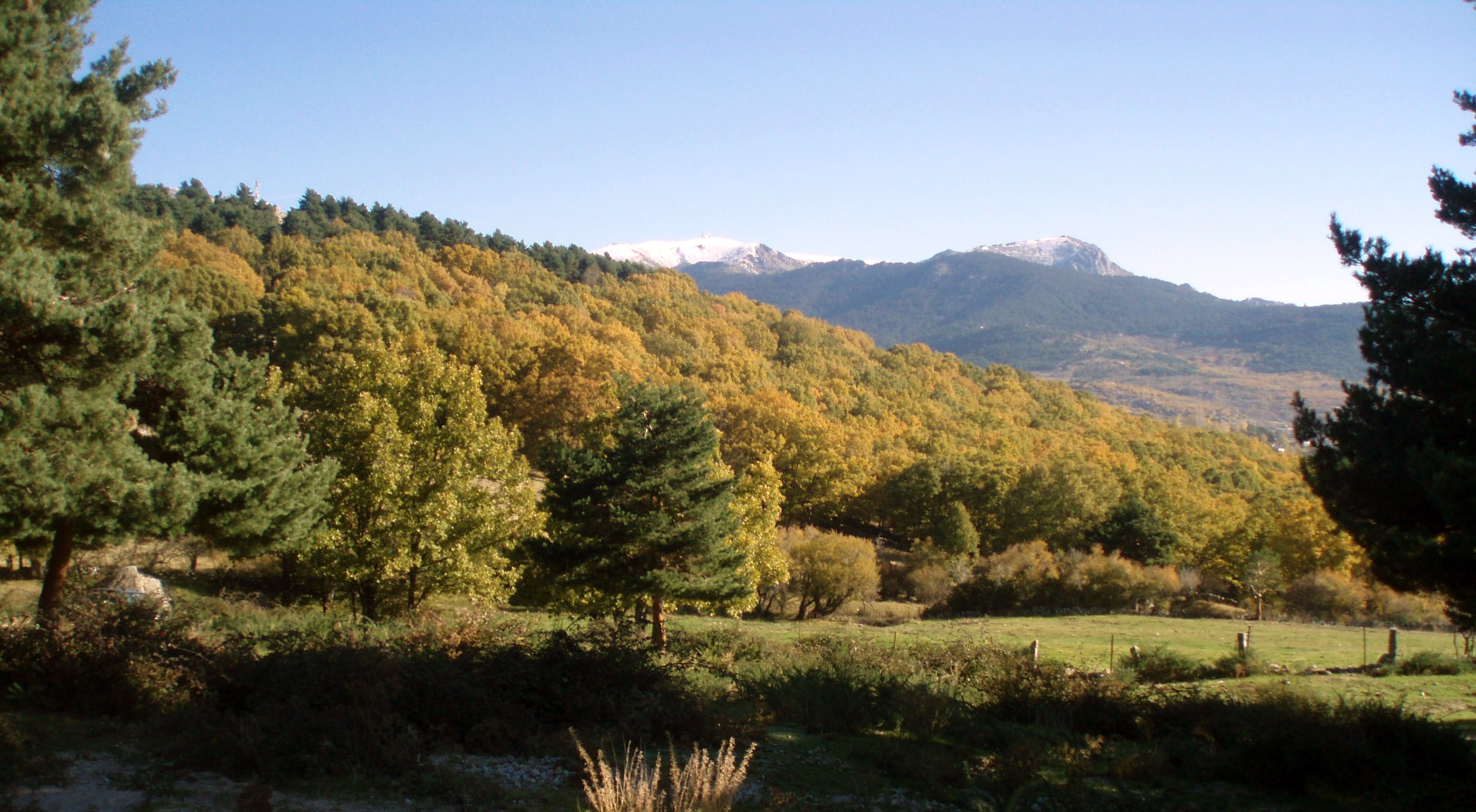 Autumn in the Guadarrama mountain range, Central Spain.